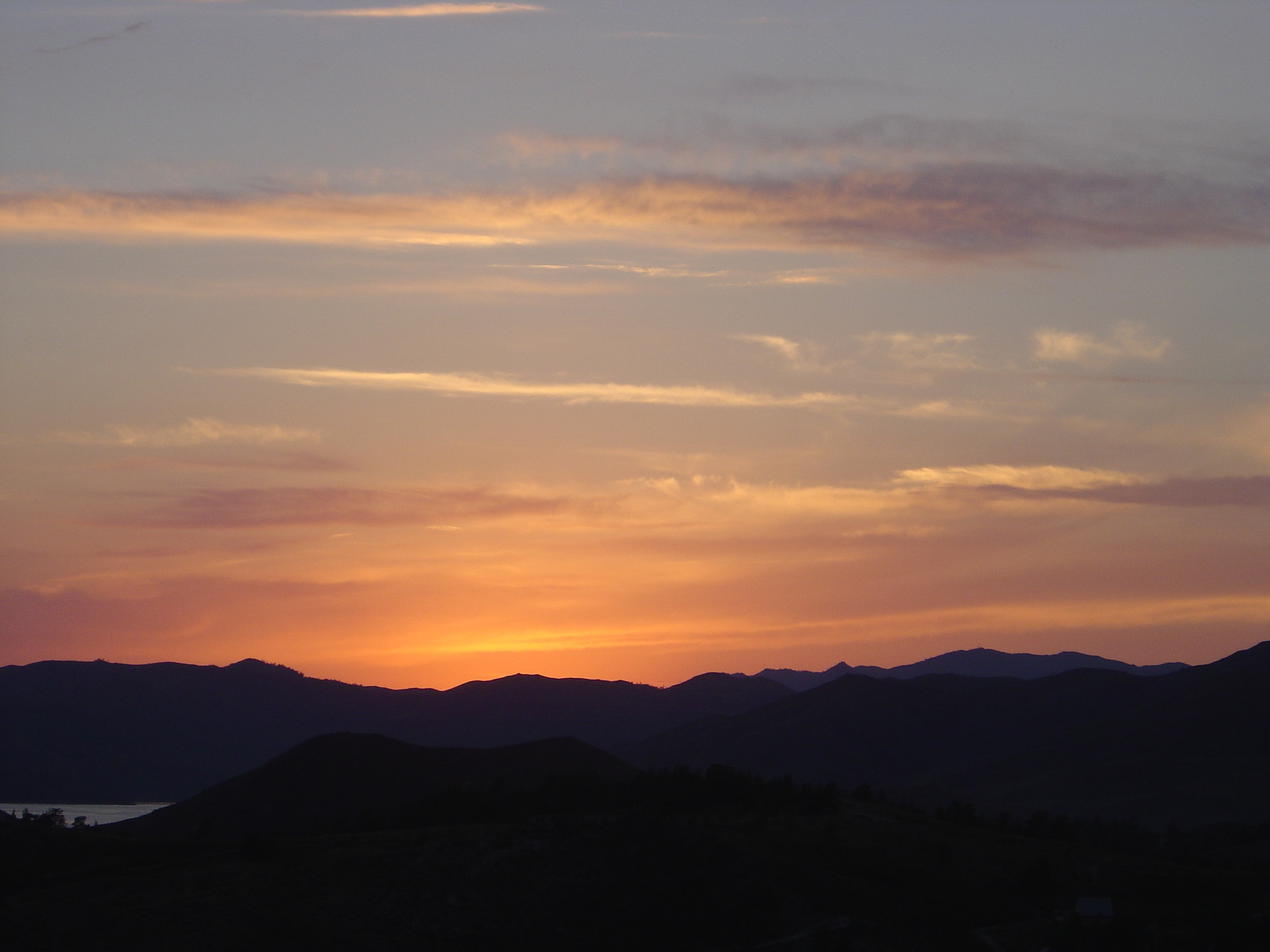 East Kazakhstan, the sunset in an area Buhtarminskogo reservoir